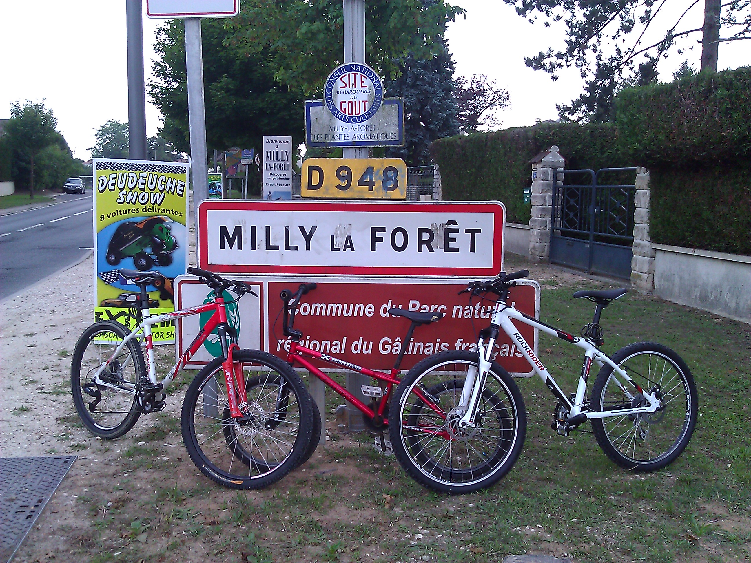 Signalétique d'entrée